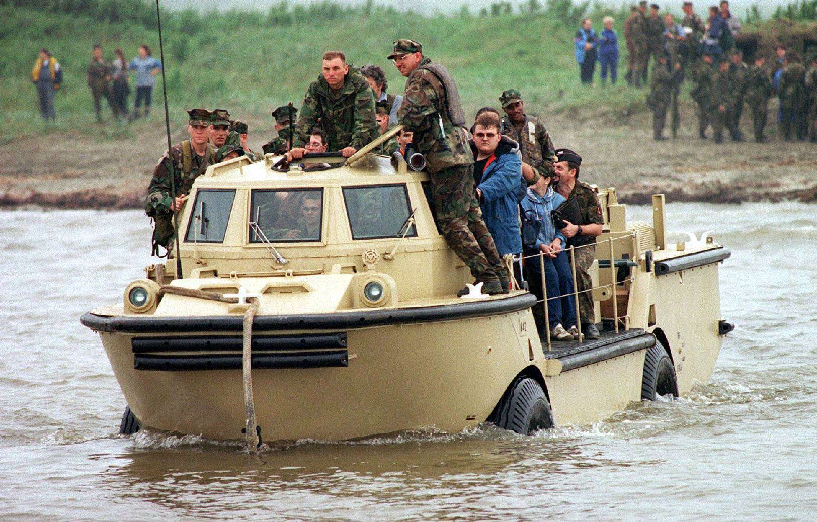 A Light Amphibious Reconnaissance Craft (LARC-V) filled with US Sailors, Marines and Russian media departs the shores of a mock disaster area for a US Landing Craft Unit (LCU) during Exercise COOPERATION FROM THE SEA '96 near Vladivostok, Russia. The simulated disaster area was designed for Russian and US medical personnel and Marines to conduct joint relief efforts to a small community struck by natural disaster. The exercise is a joint venture between US and Russian naval forces designed to improve disaster-relief operations and to further understanding between the two nations. Location: VLADIVOSTOK, SIBERIA RUSSIA (RUS).